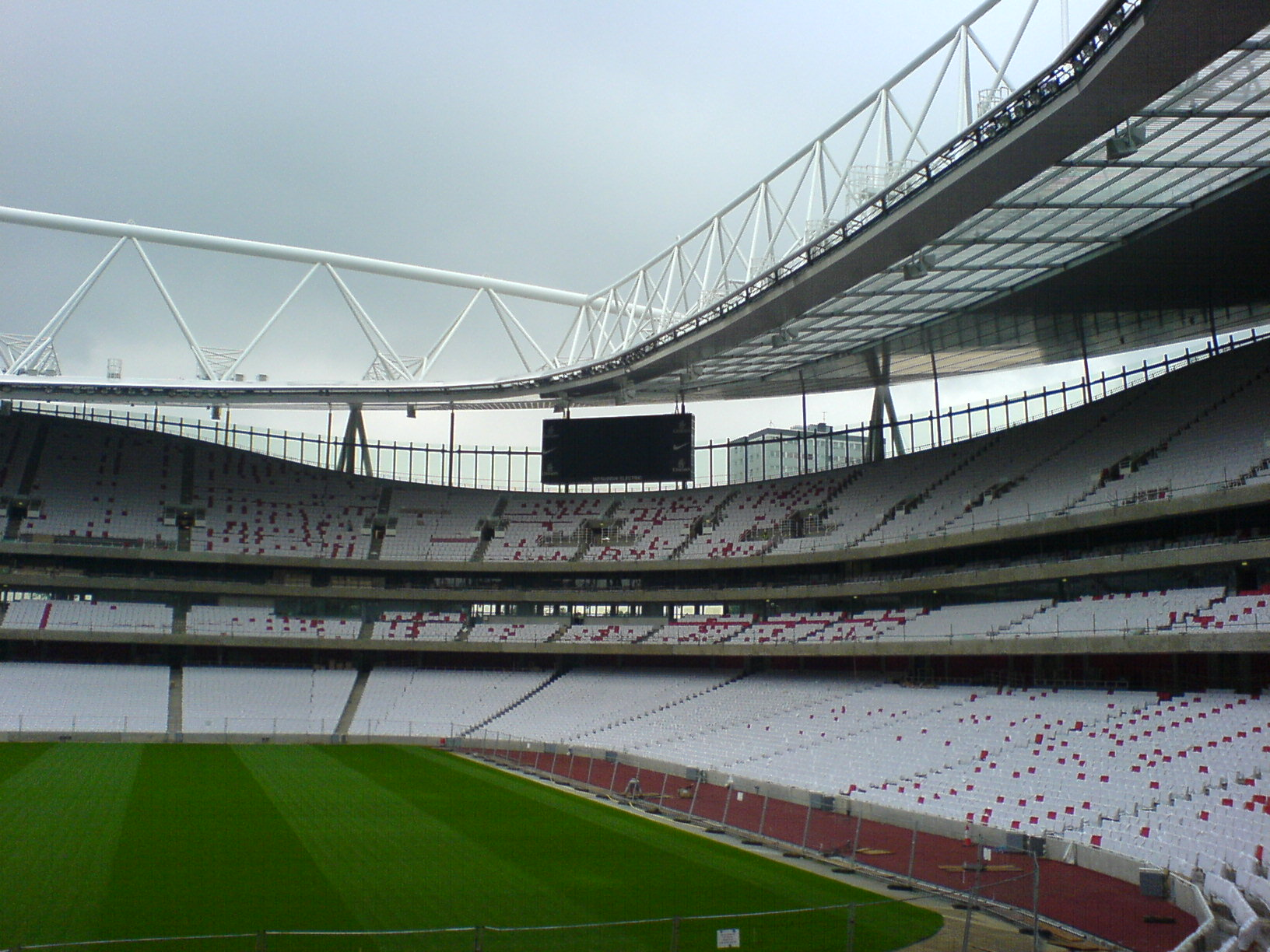 Interior of the Emirates Stadium whilst under construction